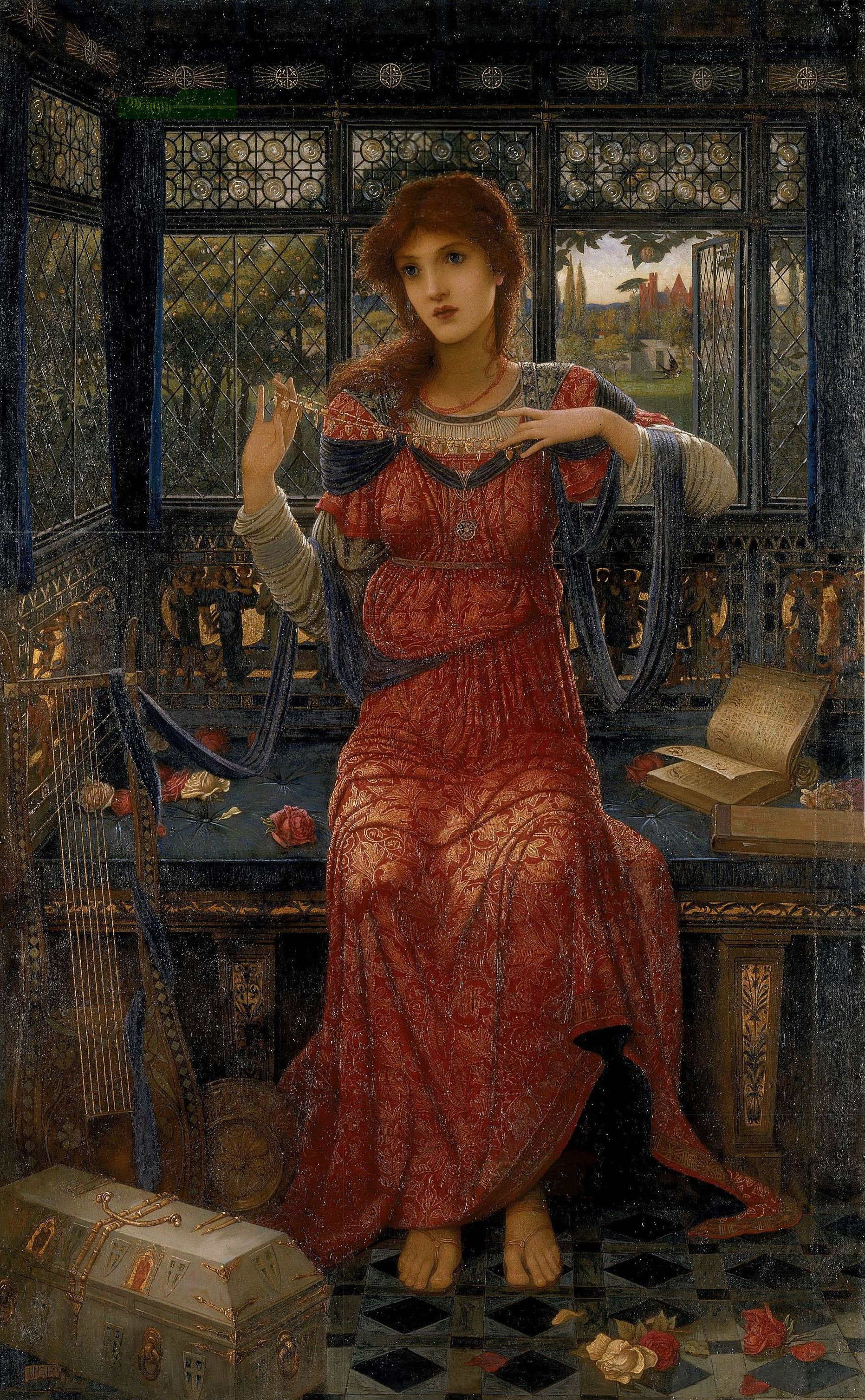 "Oh Swallow, Swallow ", Oil on canvas, 61 x 79 cm(24.02" x 31.1") Inspired by lines from Tennyson’s ‘The Princess’ about a swallow flying south with a message from the poet to his beloved.